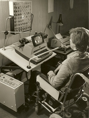 Early 1960s picture of user operating a electric communication device in the form of a sip-and-puff typewriter controller named the Patient Operated Selector Mechanism (POSM or POSSUM), which was developed in the United Kingdom. Released into the public domain by Possum company